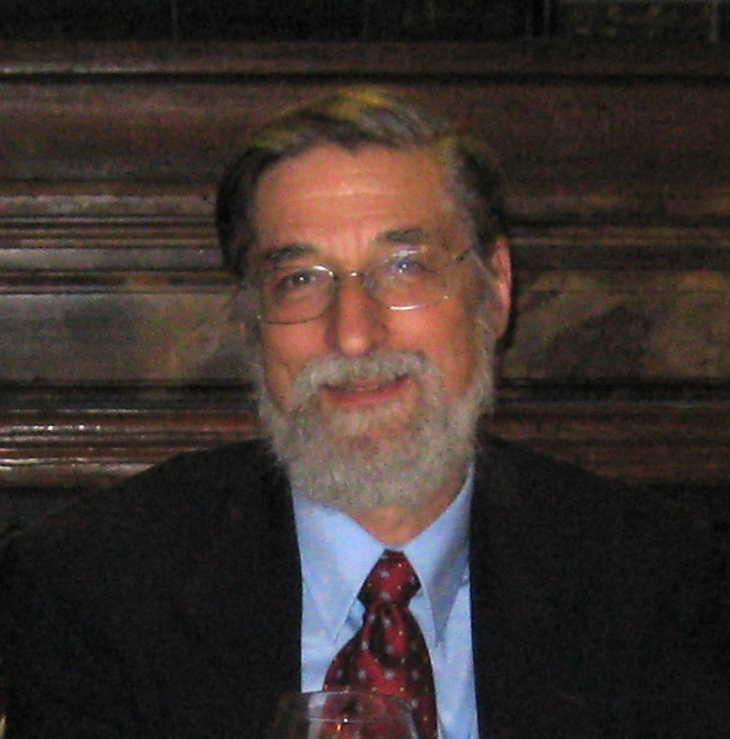 Bertrand Halperin at physics Solvay Conference 2008 in Brussels, Belgium.